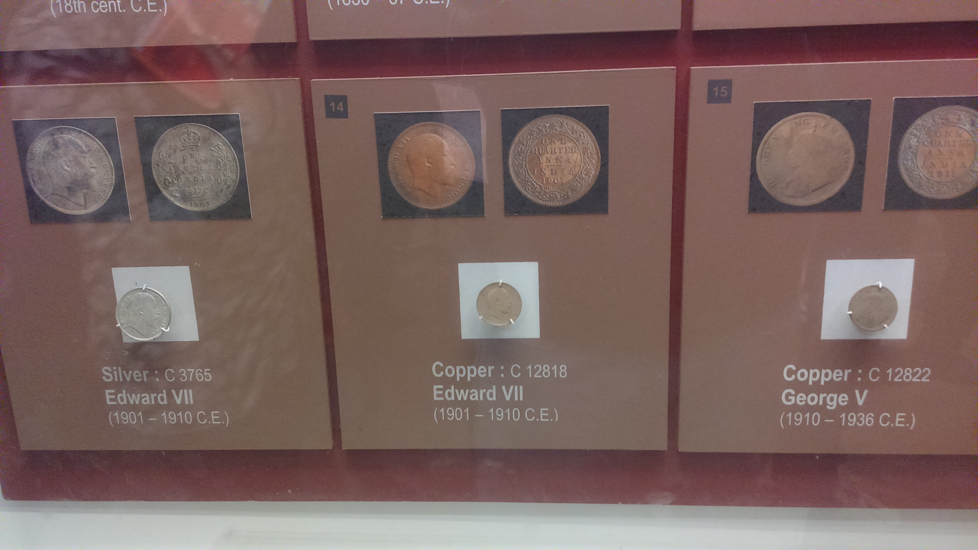 British Raj coins during Edward VII and George V, Indian Museum